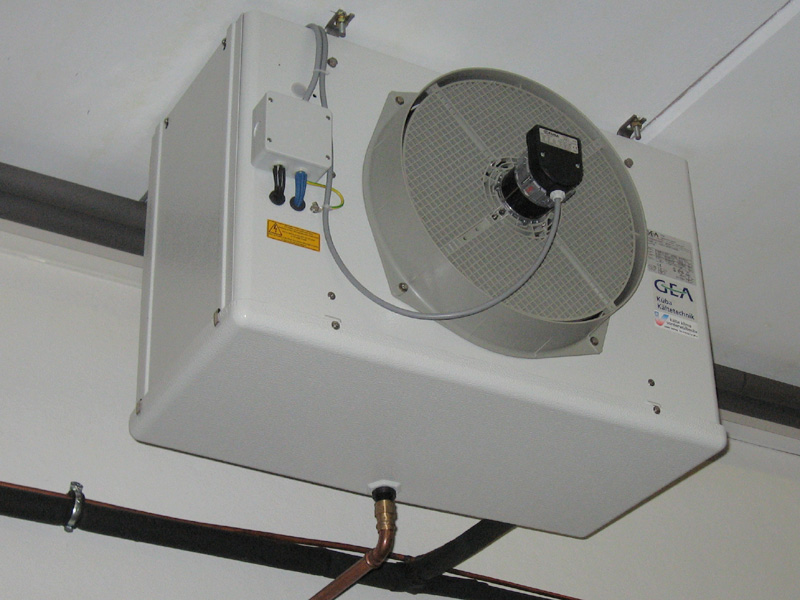 Evaporator of a vapor-compression refrigeration installation